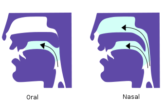 differences between oral and nasal sound.